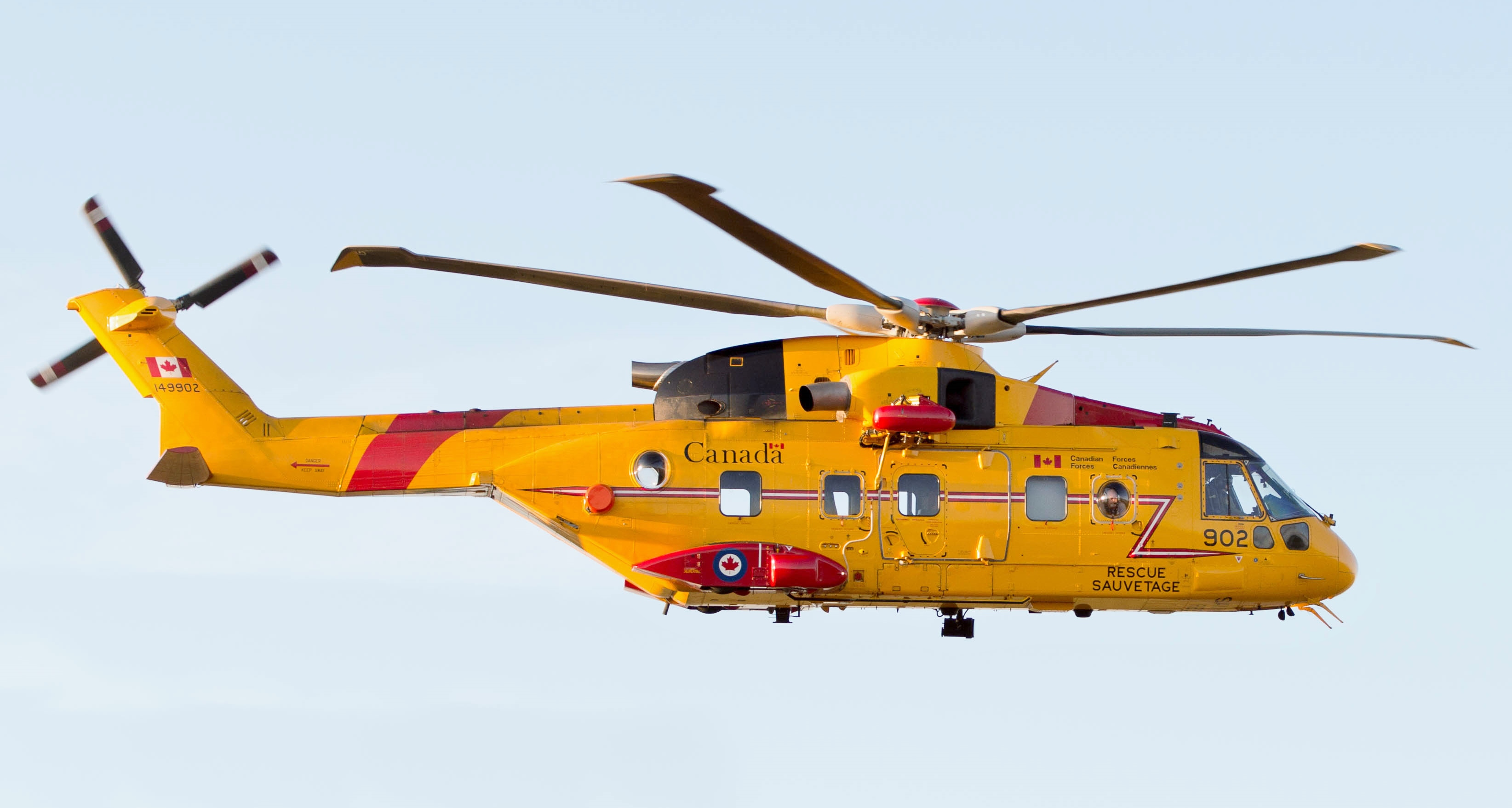 AgustaWestland CH-149 Cormorant flying near Canadian Forces Base Greenwood, Nova Scotia, Canada.